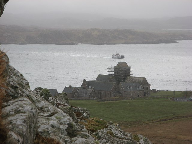 Sound of Iona Ferry crossing the sound behind the Abbey. Seen from the slopes of Dùn I.